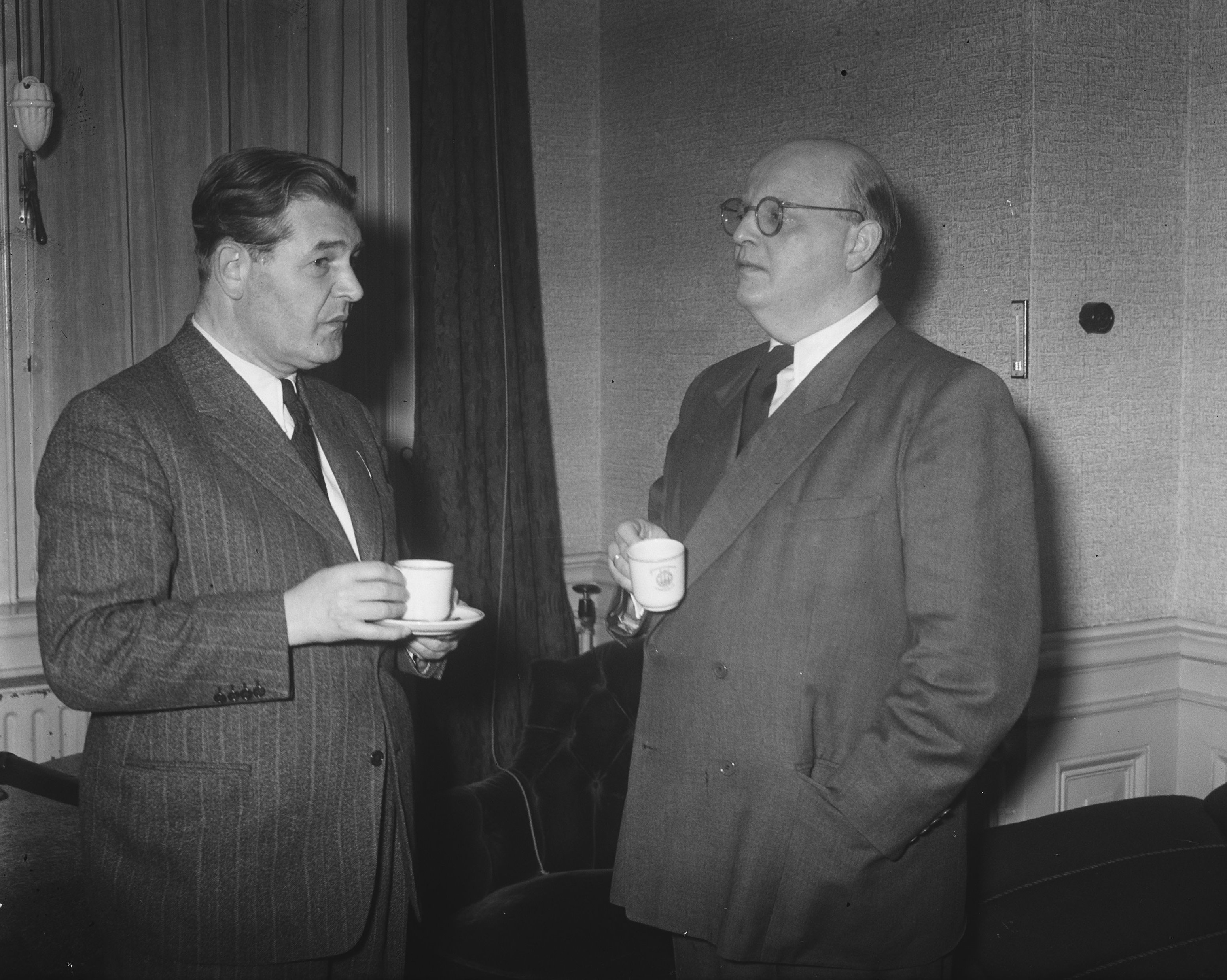 Violinist Jan Damen and Josef Krips (Concertgebouw Amsterdam, 1951)